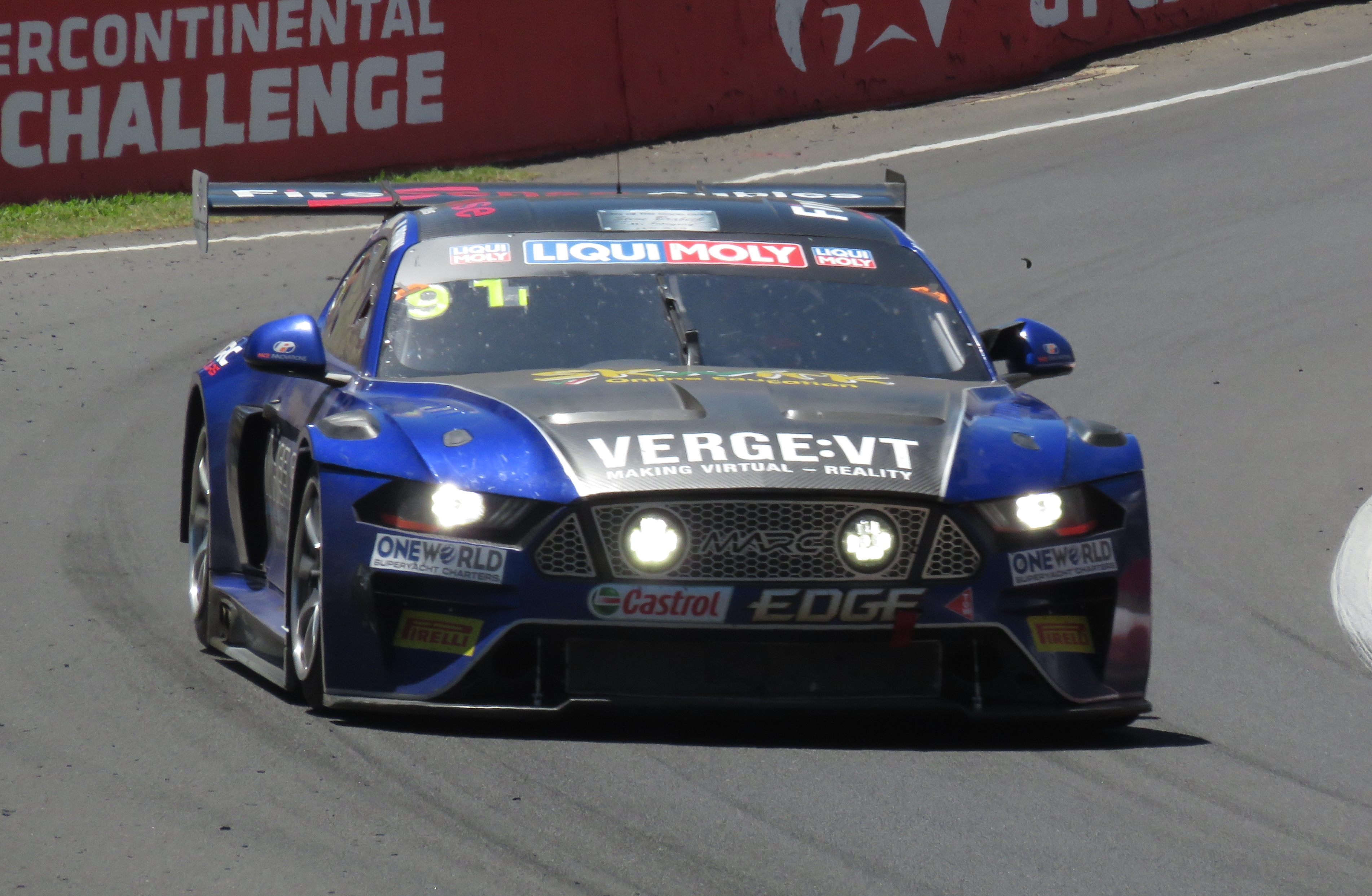 The MARC II V8 of Kassulke Salmon and Brown which competed in the 2018 Liqui Moly Bathurst 12 Hour